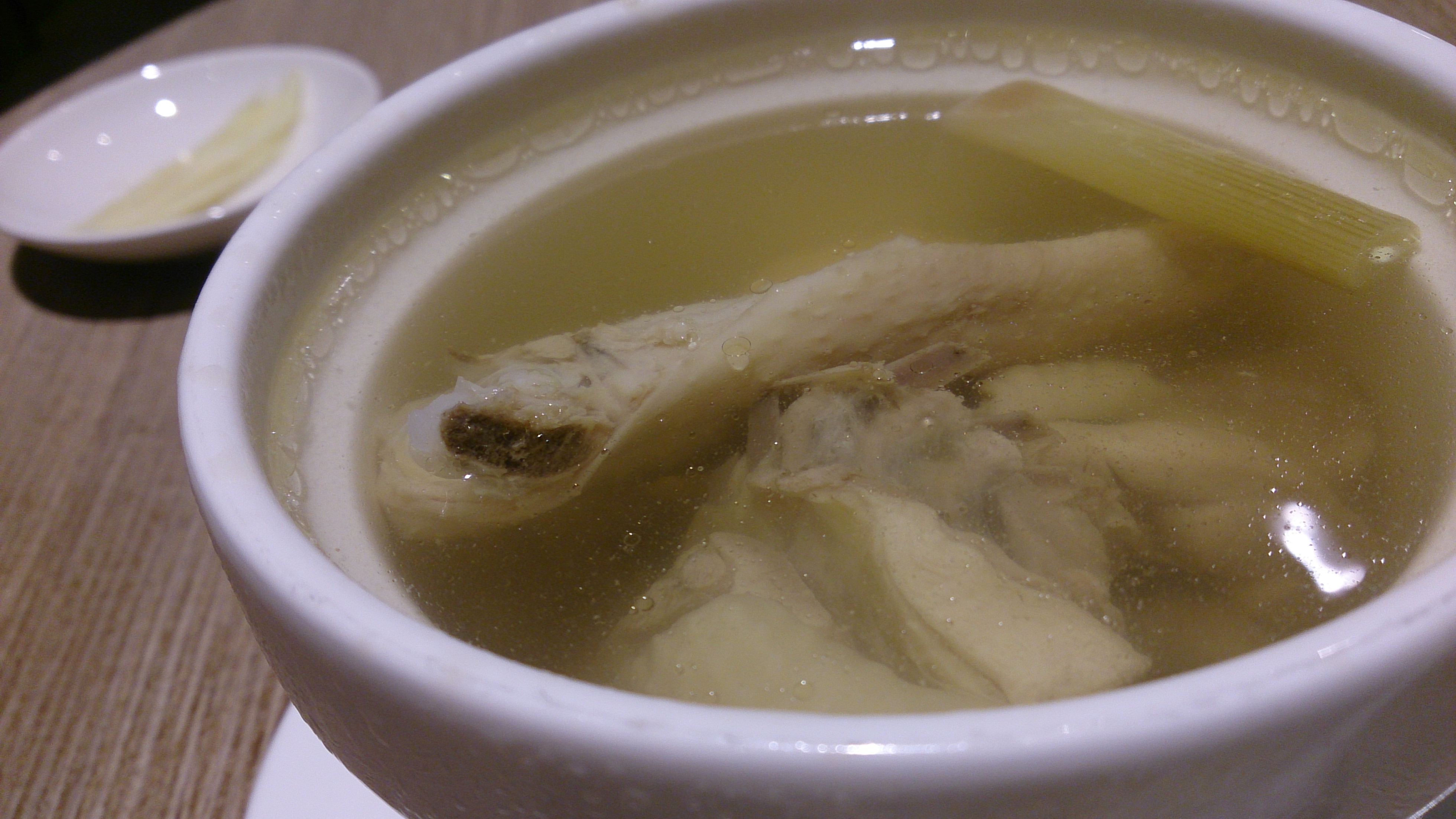 Chicken soup at Ding Tai Feng, Singapore